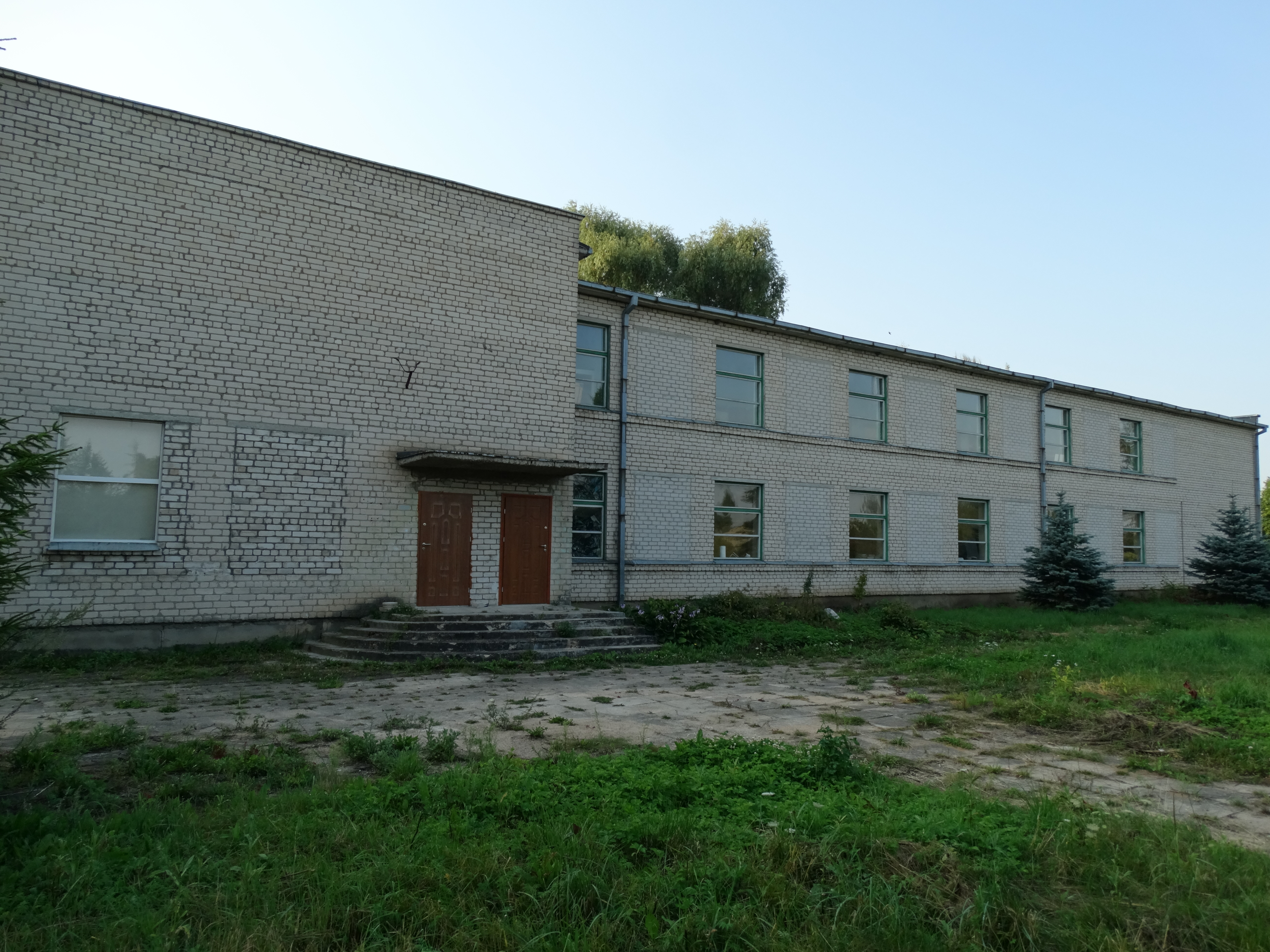 School, Linkaičiai, Joniškis District, Lithuania